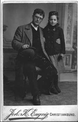 Fotographic portret of Signe Munch Siebke (1884) and Knut Hamsun in 1892 by the Kristiansand photographer Johan. K. Engvig Other sources like this think the girl is Aslaug Jullum, born 1882)